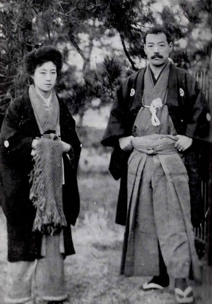 Actress Sadayakko Kawakami (left, 1871–1946) and her husband, actor Otojirō Kawakami (1864–1911)